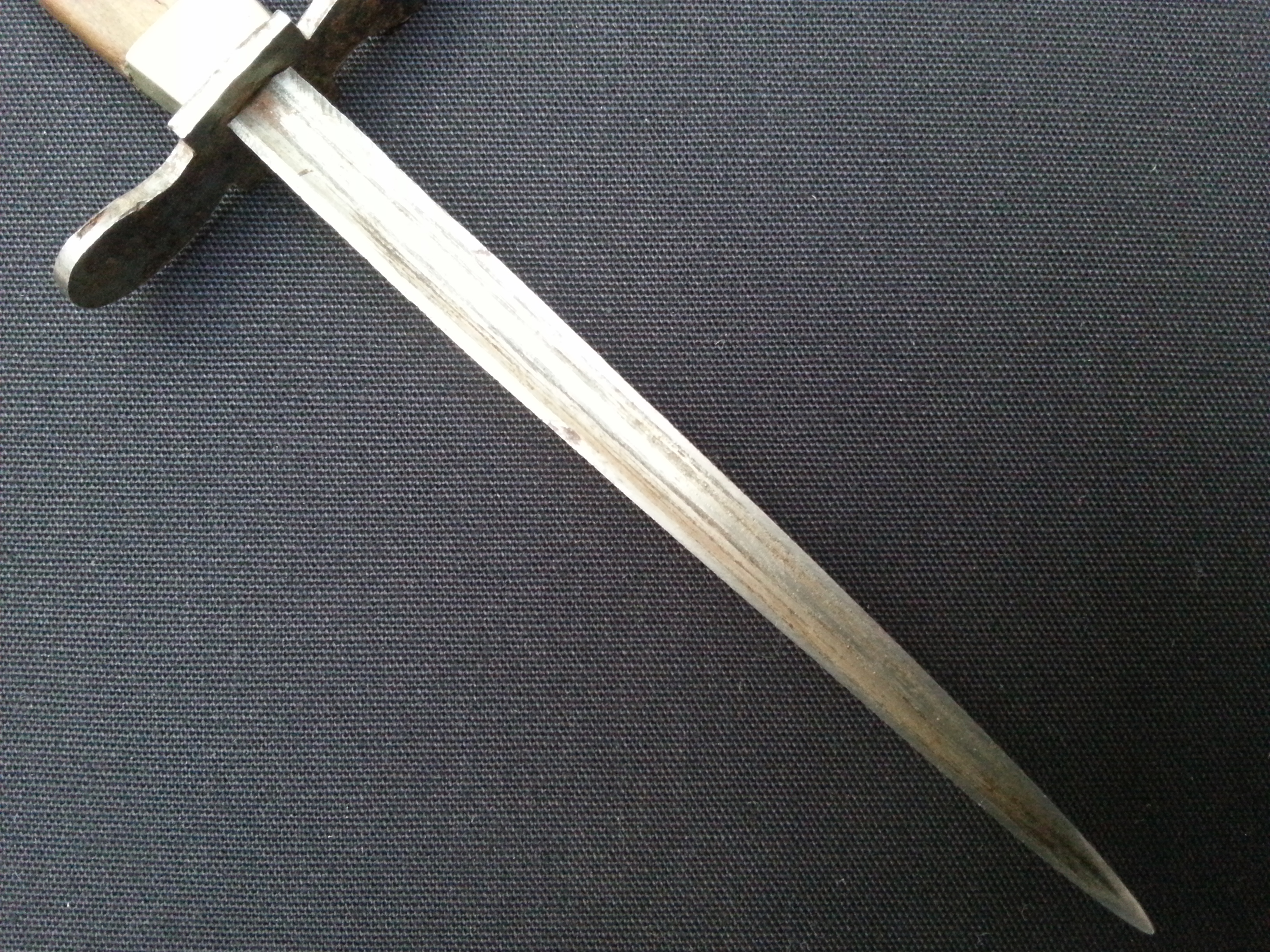 According to oral tradition, it is the dagger with which the university student Karl Ludwig Sand murdered August von Kotzebue in 1819. Exhibited on the occasion of Kotzebue’s 200th death day in the library branch A3 of Mannheim University.